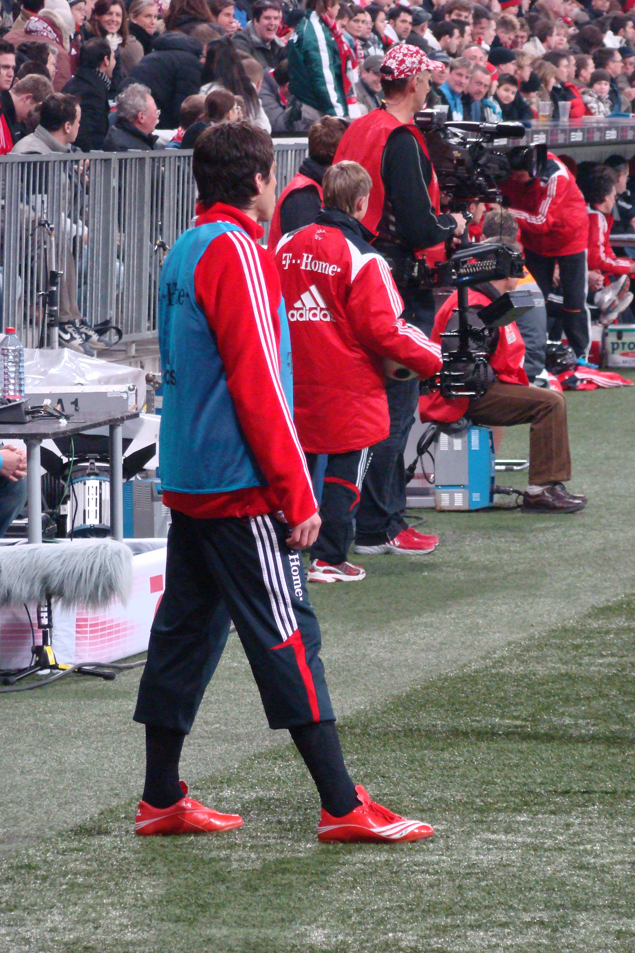 José Ernesto Sosa warming up during the FC Bayern 5-1 Aberdeen in the UEFA Cup.